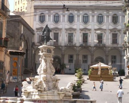 Facade of Sant'Anna dei Lombardi church, Naples, Italy